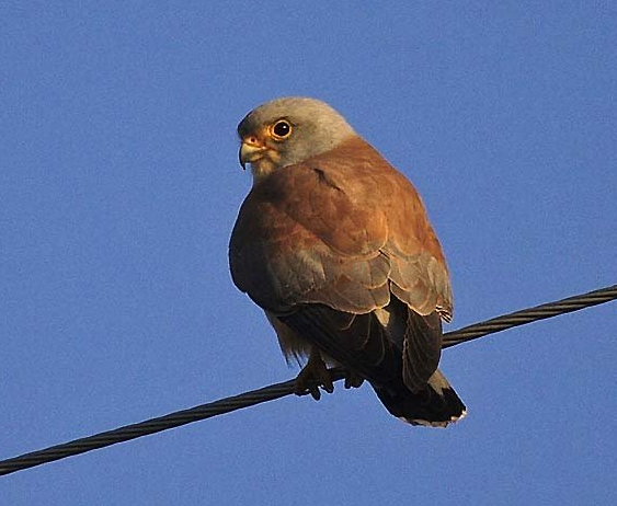 Lesser Kestrel on a string.